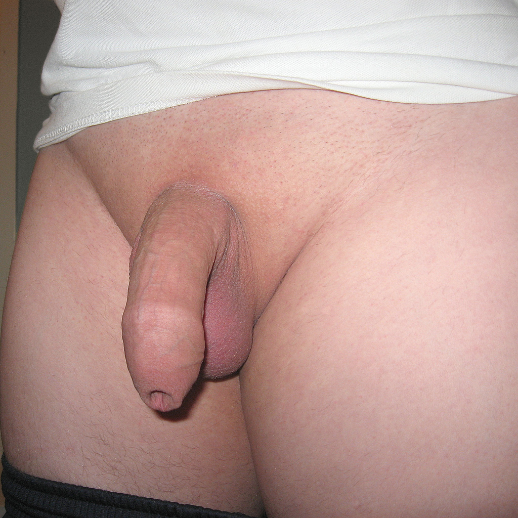 Flaccid uncircumcised penis of an adult male.